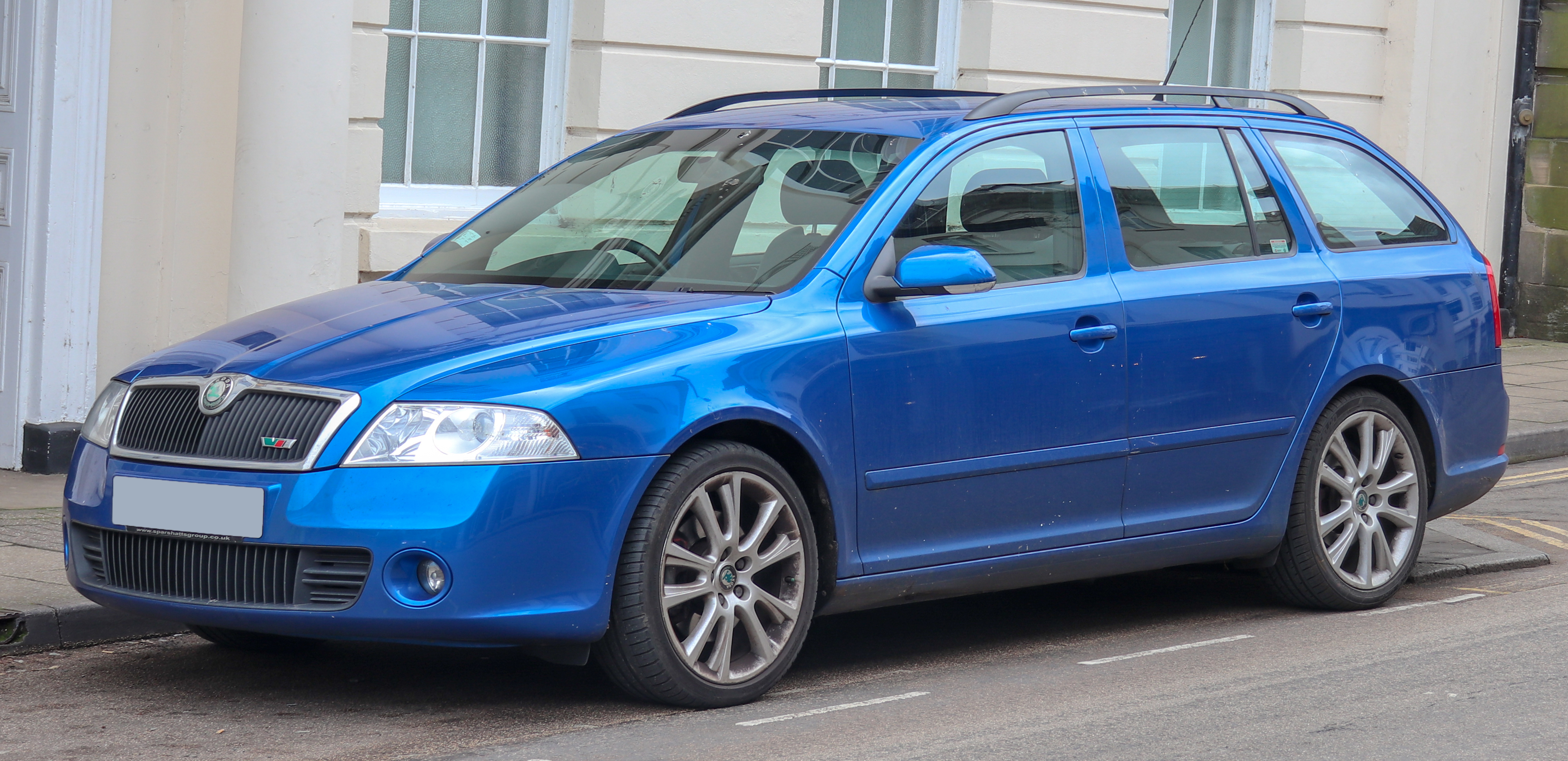 2008 Skoda Octavia VRS Estate 2.0 Front Taken in Warwick